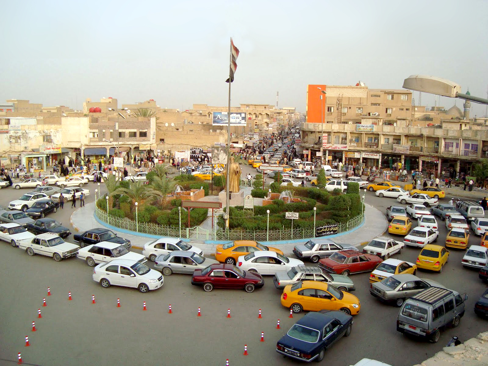 neserya city center square of habubei